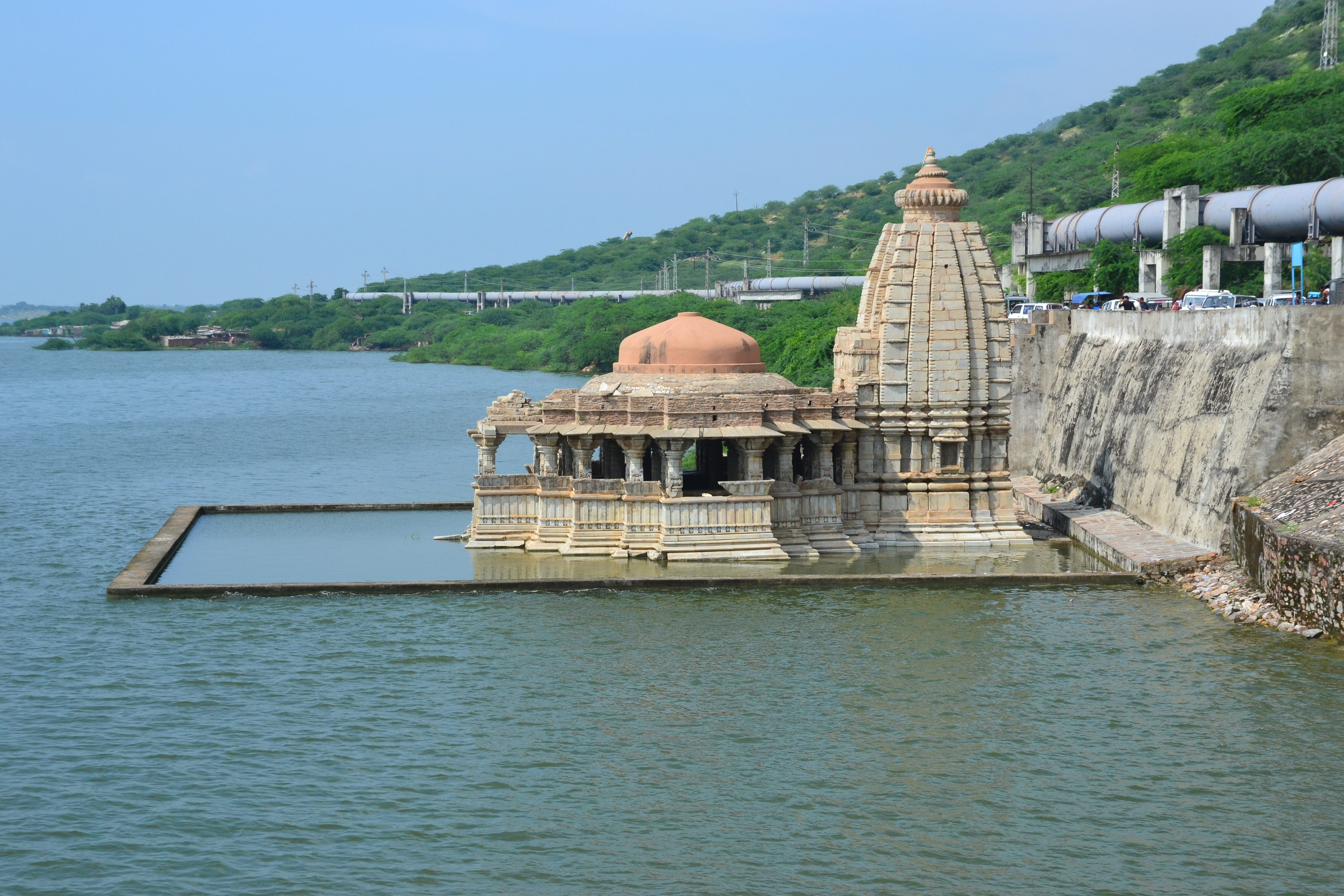 bisaldeo lord temple tonk